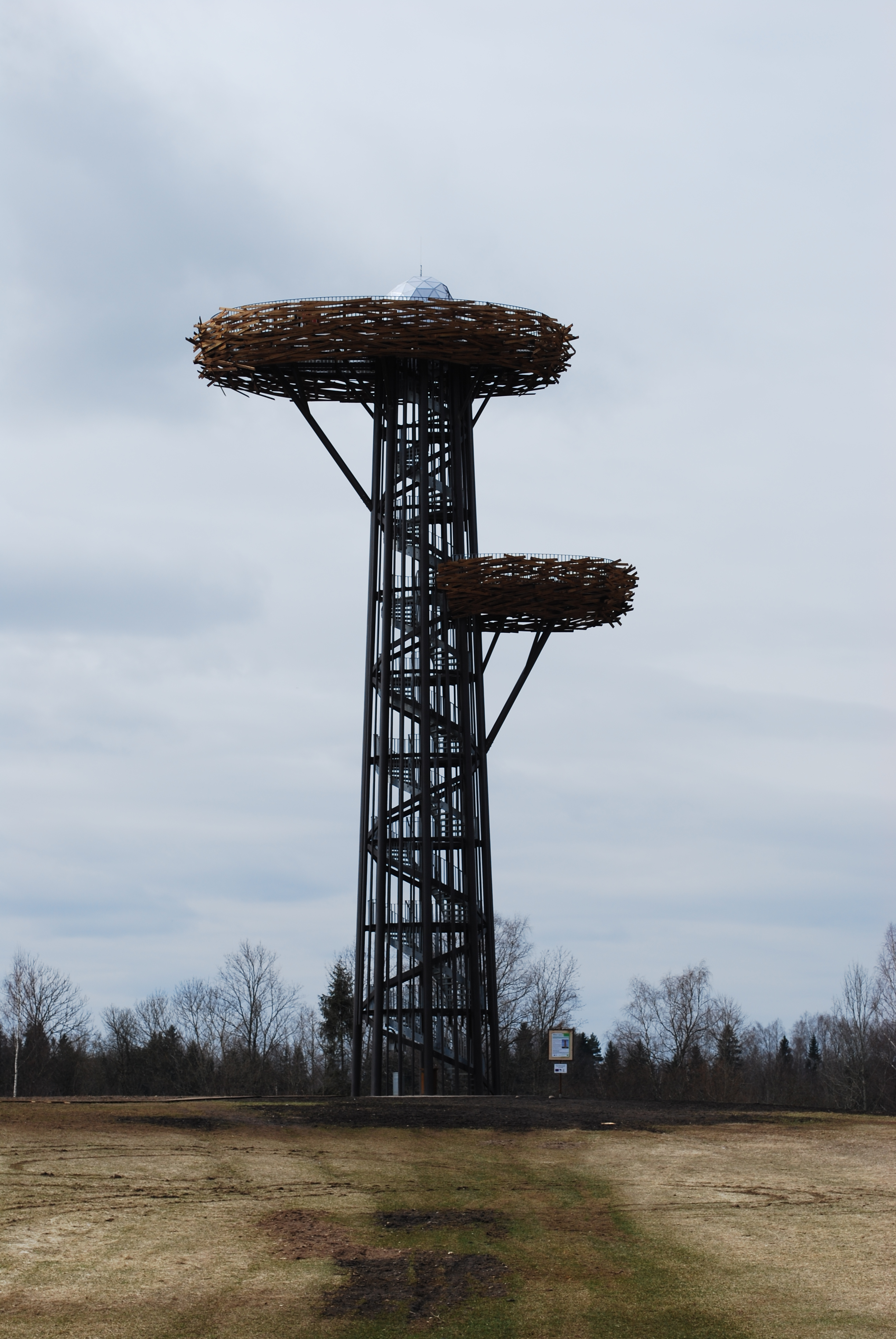 Rõuge watchtower "Pesapuu"